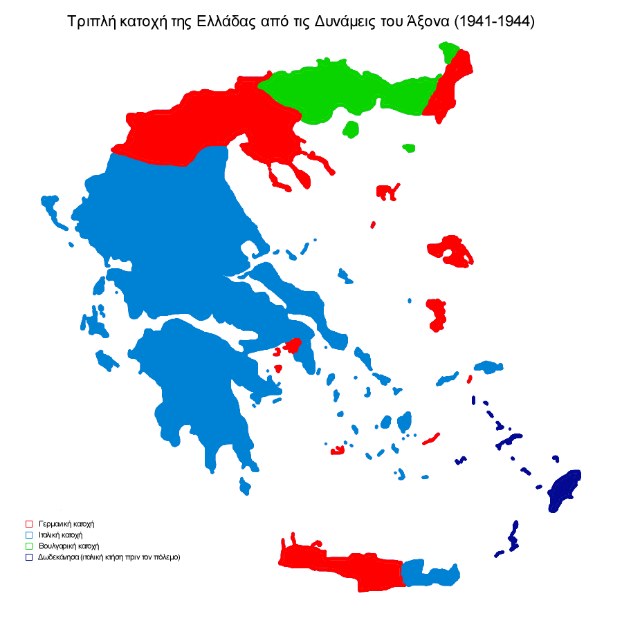 Map of Occupied Greece showing the German and Italian occupation zones on Crete (in Greek).